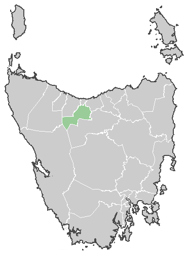 Map of LGA Kentish in Tasmania, Australia